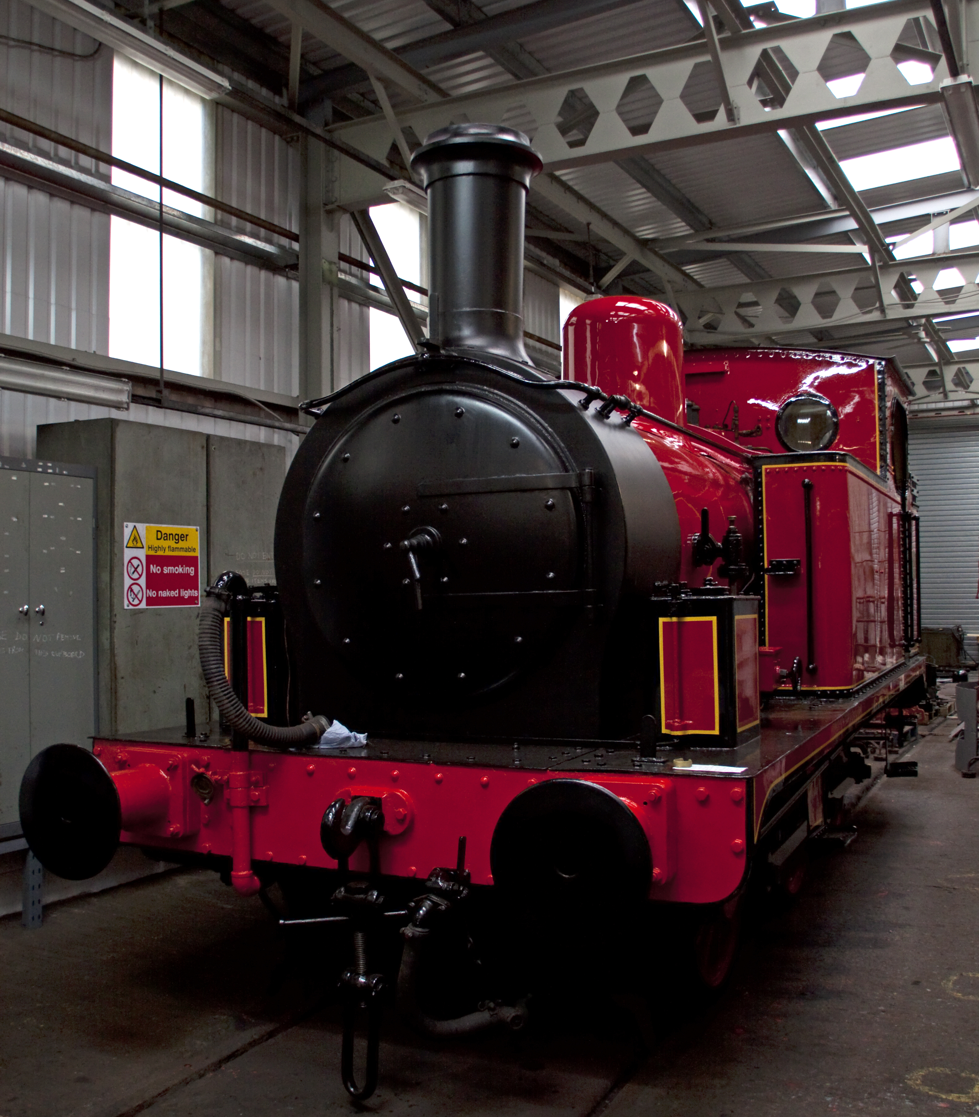 Manchester Ship Canal Hunslet 0-6-0T number 686 The Lady Armaghdale at Bridgnorth. It is now out of service, having lately been run as "Thomas the Tank Engine". It has now been repainted to be displayed in the Engine House at Highley